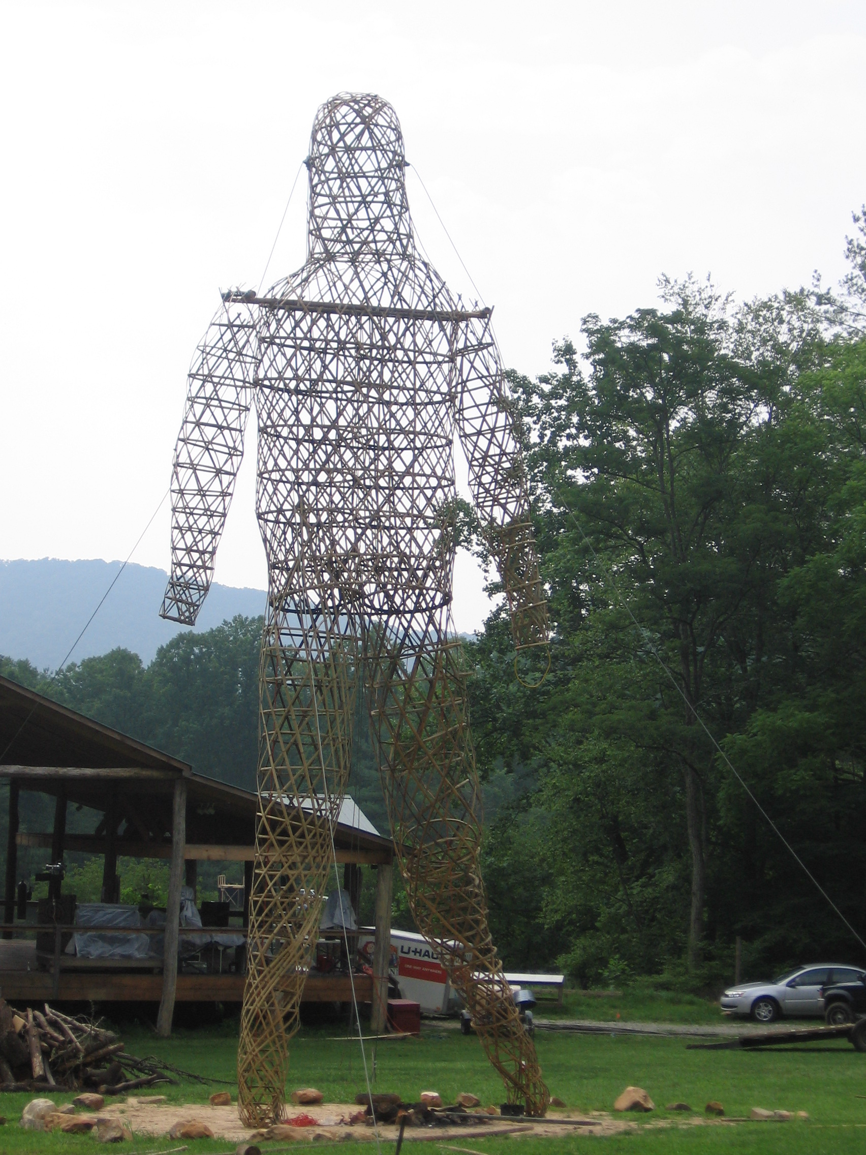 A picture of the Bamboozler, the "wicker man" burned every year at Transformus